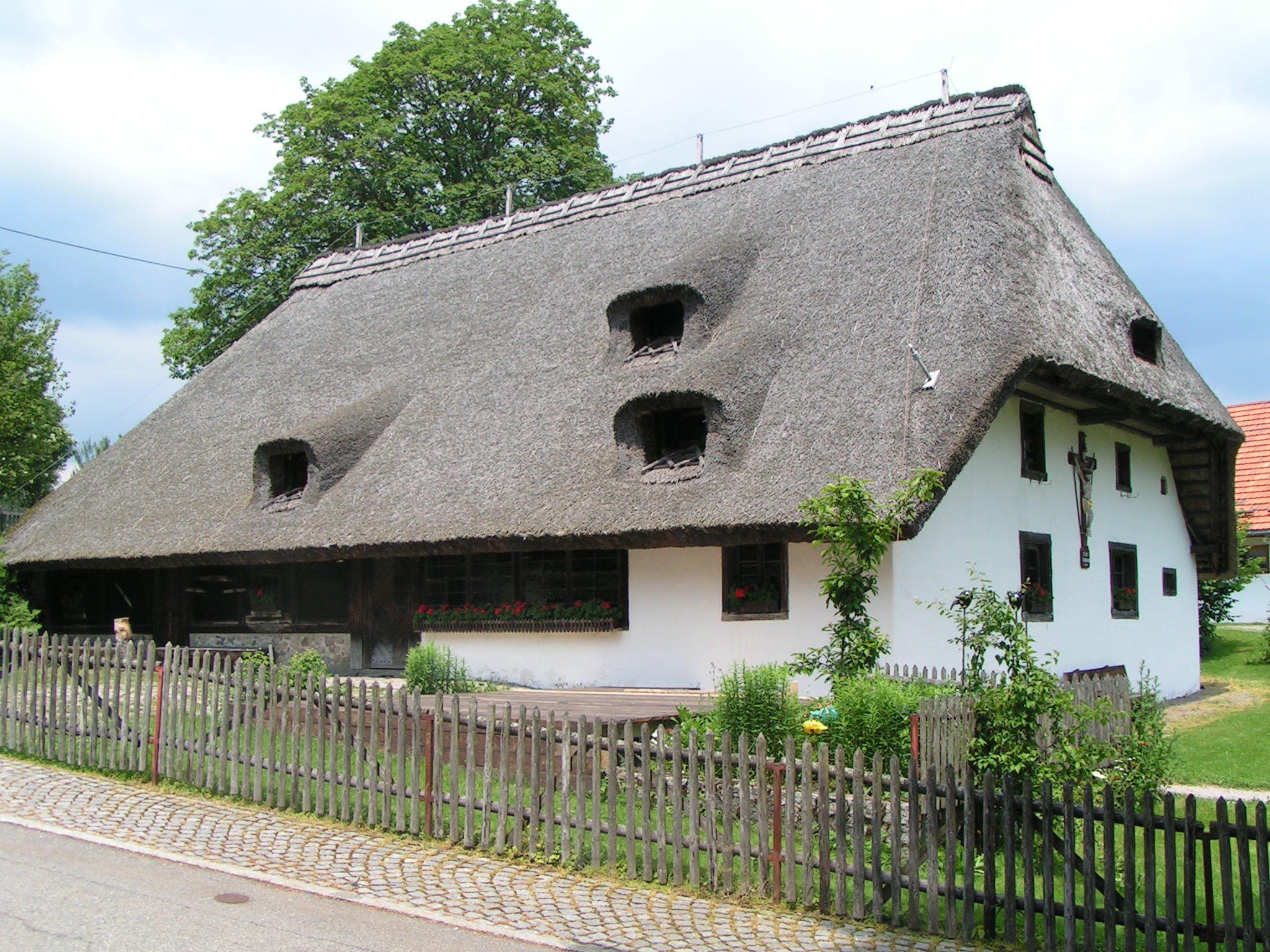 Open air museum "Klausenhof" Herrischried